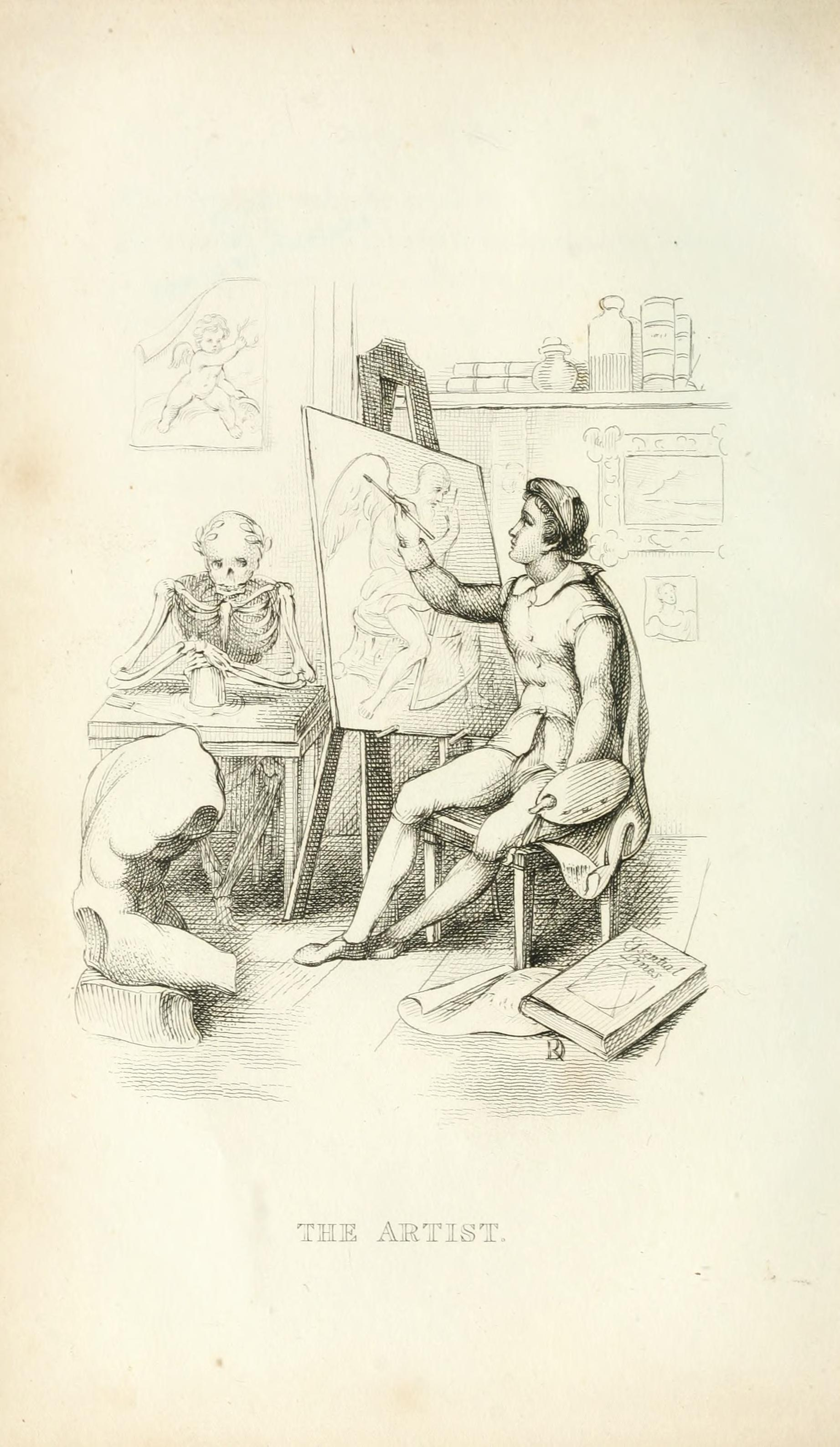 Title: Death's doings : consisting of numerous original compositions in verse and prose, the friendly contributions of various writers : principally intended as illustrations of thirty copper-plates Year: 1827 (1820s) Authors: Dagley, Richard, d. 1841 Subjects: Death Publisher: London : J. Andrews ... and W. Cole ... Text Appearing Before Image: ' Text Appearing After Image: THE AlRTIST,, 53 THE ARTIST. And what is genius ?—Tis a ray of Heaven, Illuming dim mortality ; a gleam That flashes on our gloominess by fits. Like summer lightnings, which, in radiant lines, Inwreath the midnight clouds with tints divine ; It gilds Imaginations darkest scenes With splendid glory, like those meteor gems That spread their richness oer the polar skies. O, tis a straggling sunbeam, through the storm. Flung on the clusterd diamond, which reflects. In burning brilliancy, the borrowd blaze ; It is the morning light, outpouring all Its flood of splendour on the bloomy bovvers Of Gods own Paradise ! Though hapless oftHis fate, how blessd the Artist who beholds.With mind inspird and genius-brightend eye.Those beauties which eternally shine forth. 54 deaths doings. Nature, in all thy works ! To him, high wrappd In passiond fancies, feelings so allied To something heavenly, that to all on earth They give their own rich tinting. What delight The morning landscape yields ; when